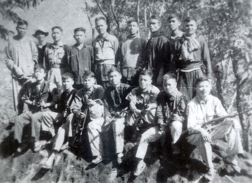 Nguyễn Hữu Thọ and the Phú Yên Province Viet Minh.